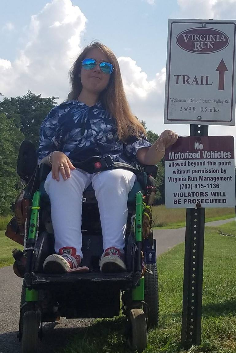 S.C. Megale poses next to "No Motorized Vehicles" sign in the park behind her residence.